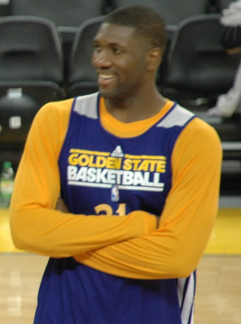 Kent Bazemore (undrafted pickup from summer league) takes his turn at the mic.